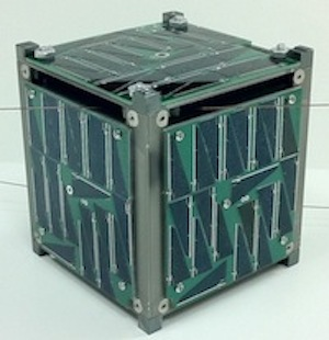 AubieSat-1 completely assembled with antennas deployed.